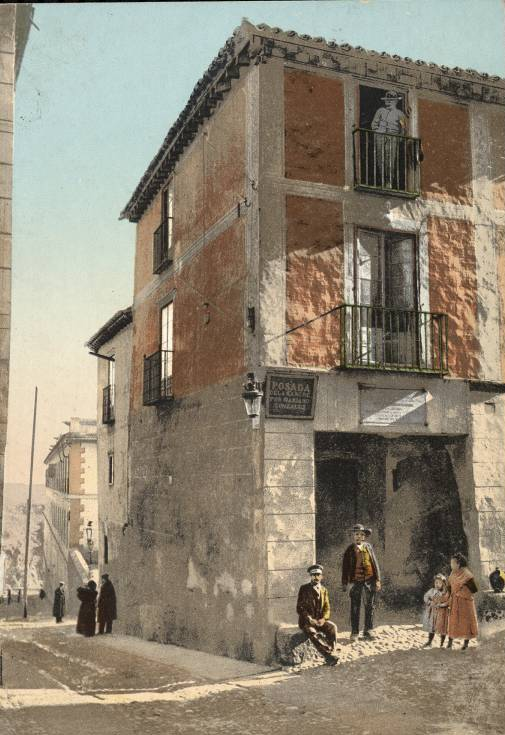 Posada de la Sangre, Toledo.